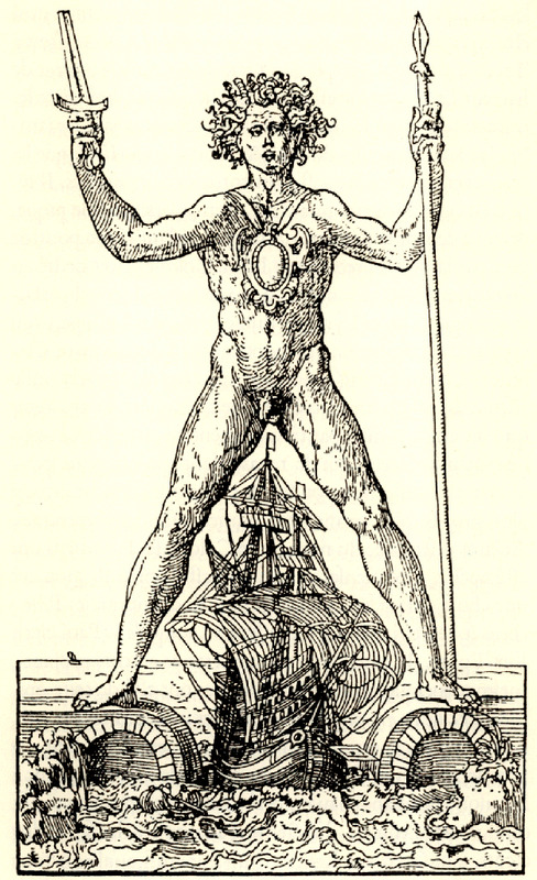 André Thevet. Cosmographie de Levant par F. André Thevet d’Angoulême. Revue et augmentée de plusieurs figures, Lyon, Jean Tournes et Guil.Gazeau, 1556.